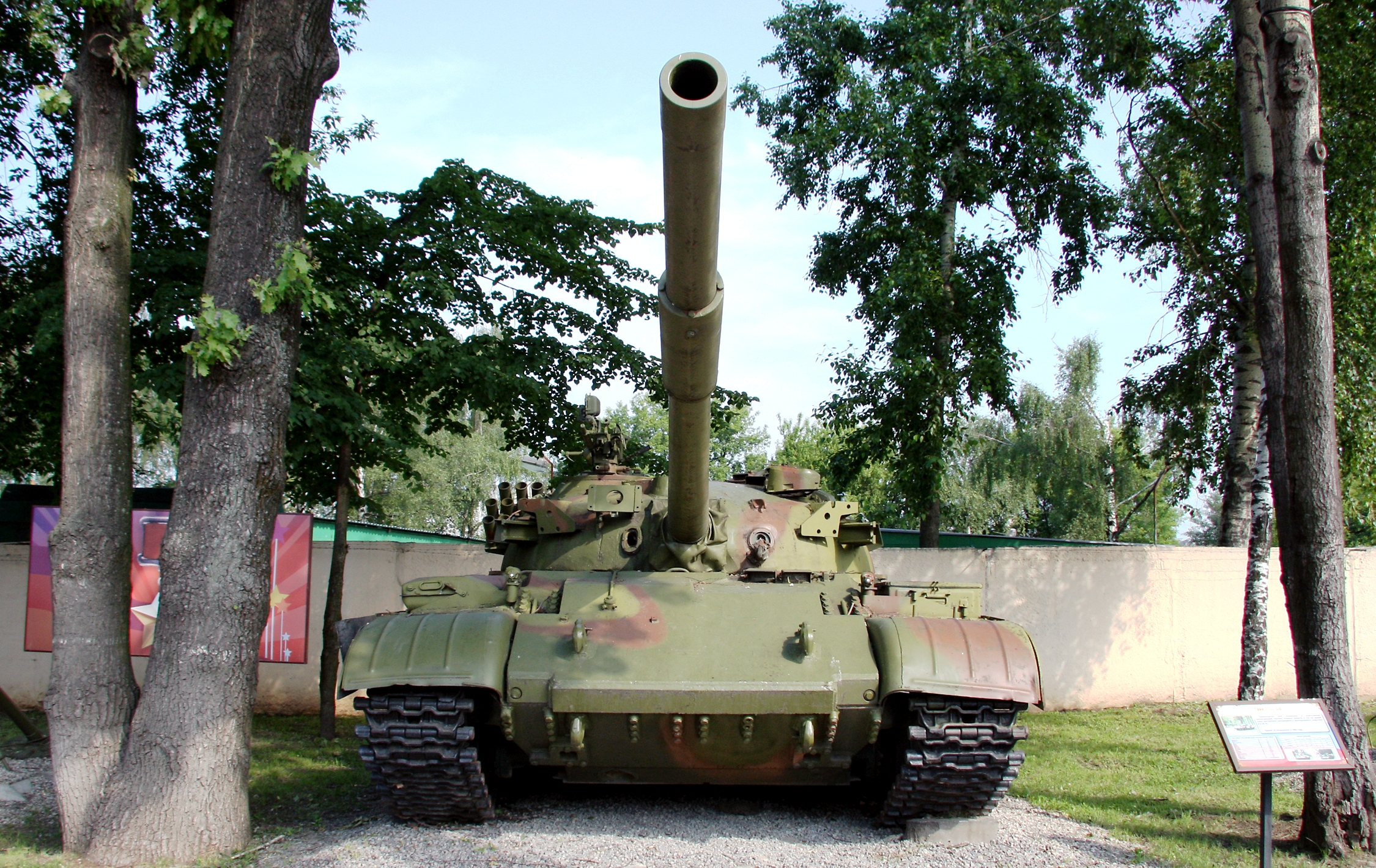 T-62D at the Moscow Suvorov Military School in Babushkinsky.